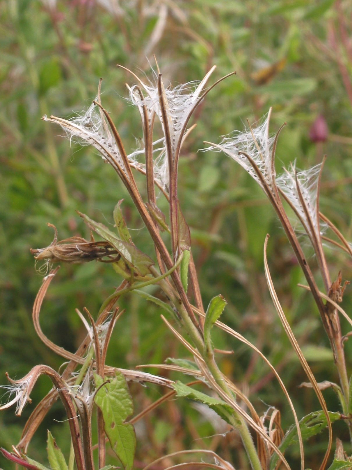 Epilobium hirsutum fruits